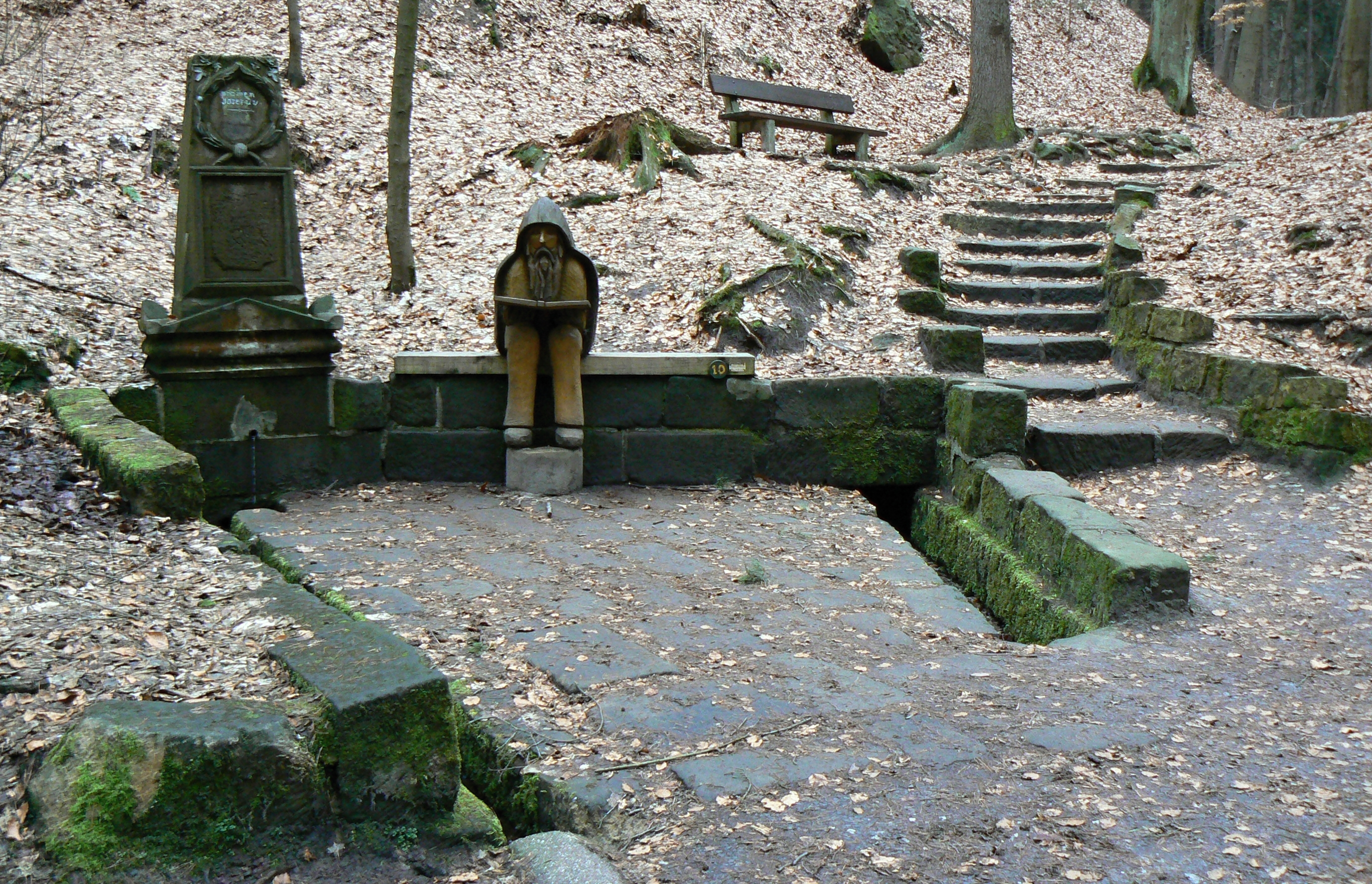 Joseph´s spring of water in Hruboskalsko Nature Reserve, Semily District